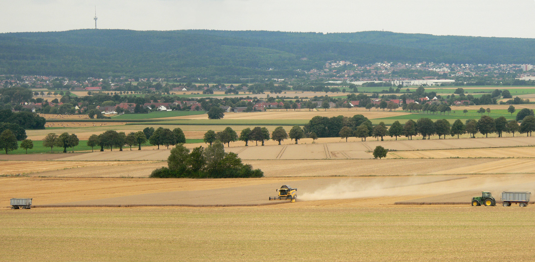 Calenberger Lössbörde vom Gehrdener Berg gesehen Richtung Deister